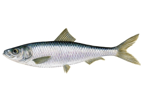 Clupeonella cultriventris